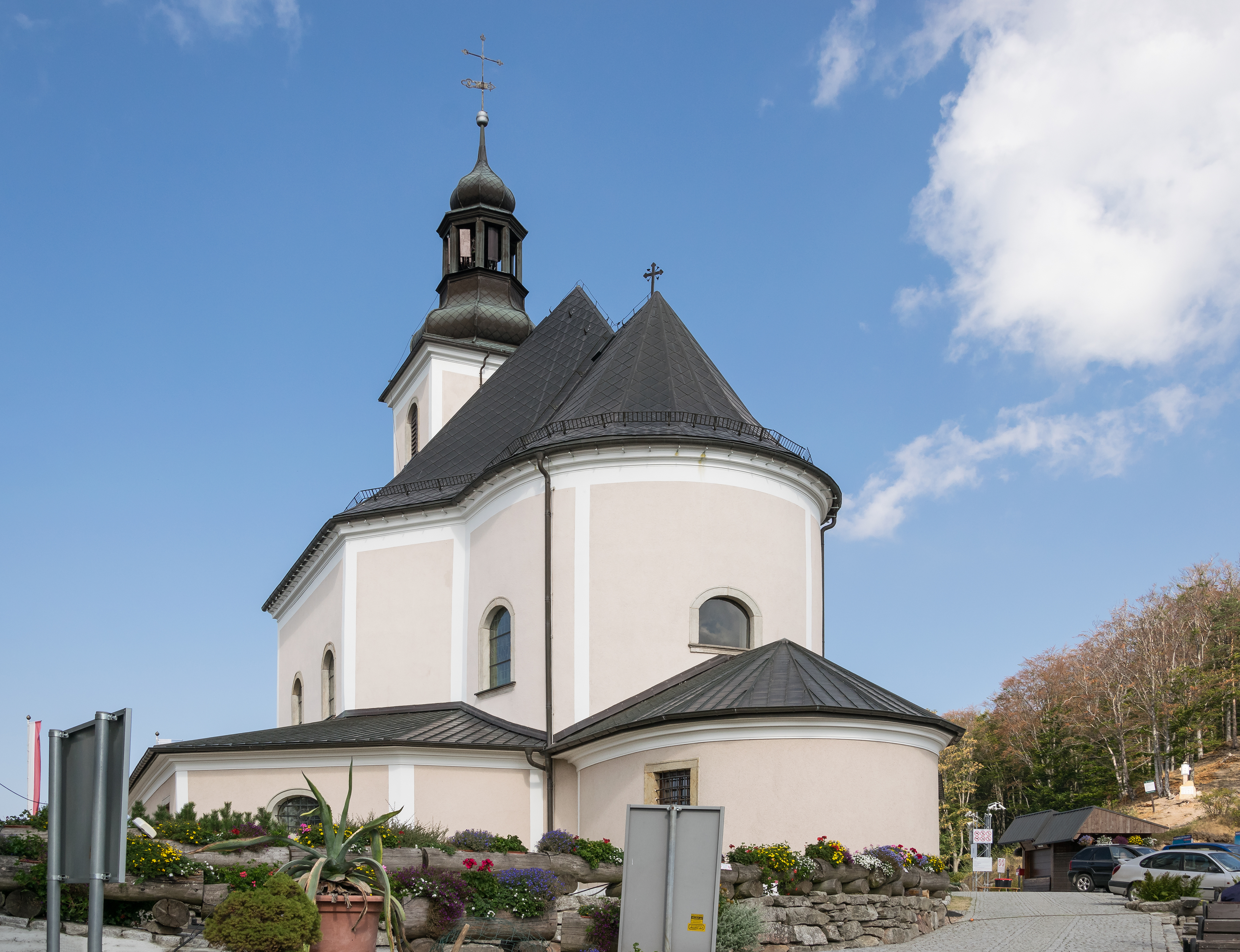 Maria Śnieżna sanktuary Wikidata has entry Q30046607 with data related to this item.